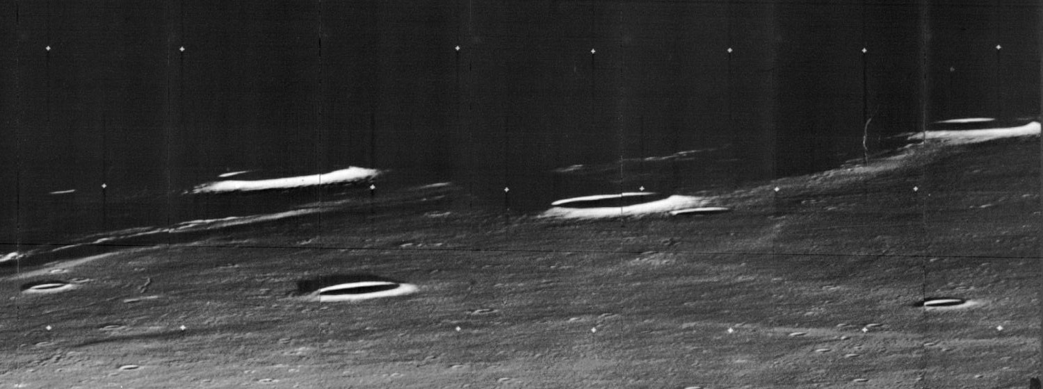 Oblique view of Suess (largest crater, upper left), with Suess H, D, and B (left to right) craters, at the lunar terminator, facing west, on the moon.